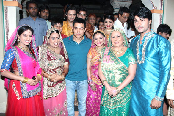 Aamir Khan with Diya Aur Baati Hum TV series actors along with Deepika Singh and Anas Rashid